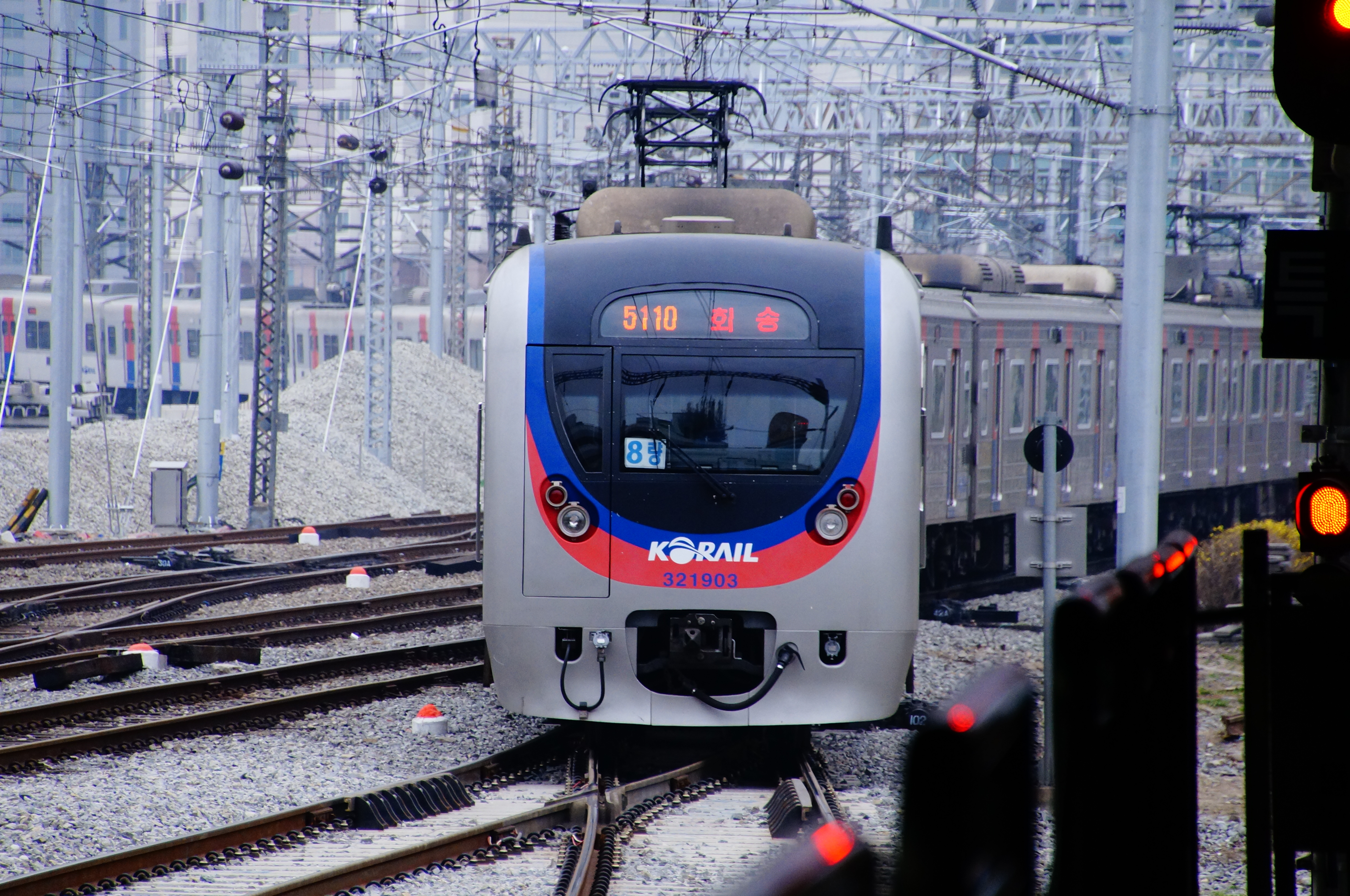 Korail Class 321000 (trainset 321x03) Jungang Line train arriving at Yongsan from relay.